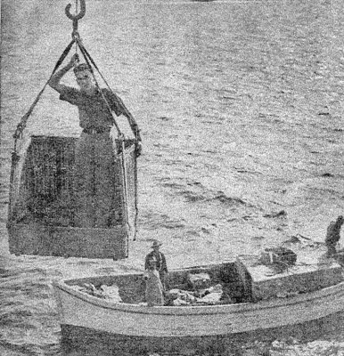 South Solitary Island, people and supplies bein hauled from a launch by a crane in a basket, 1946